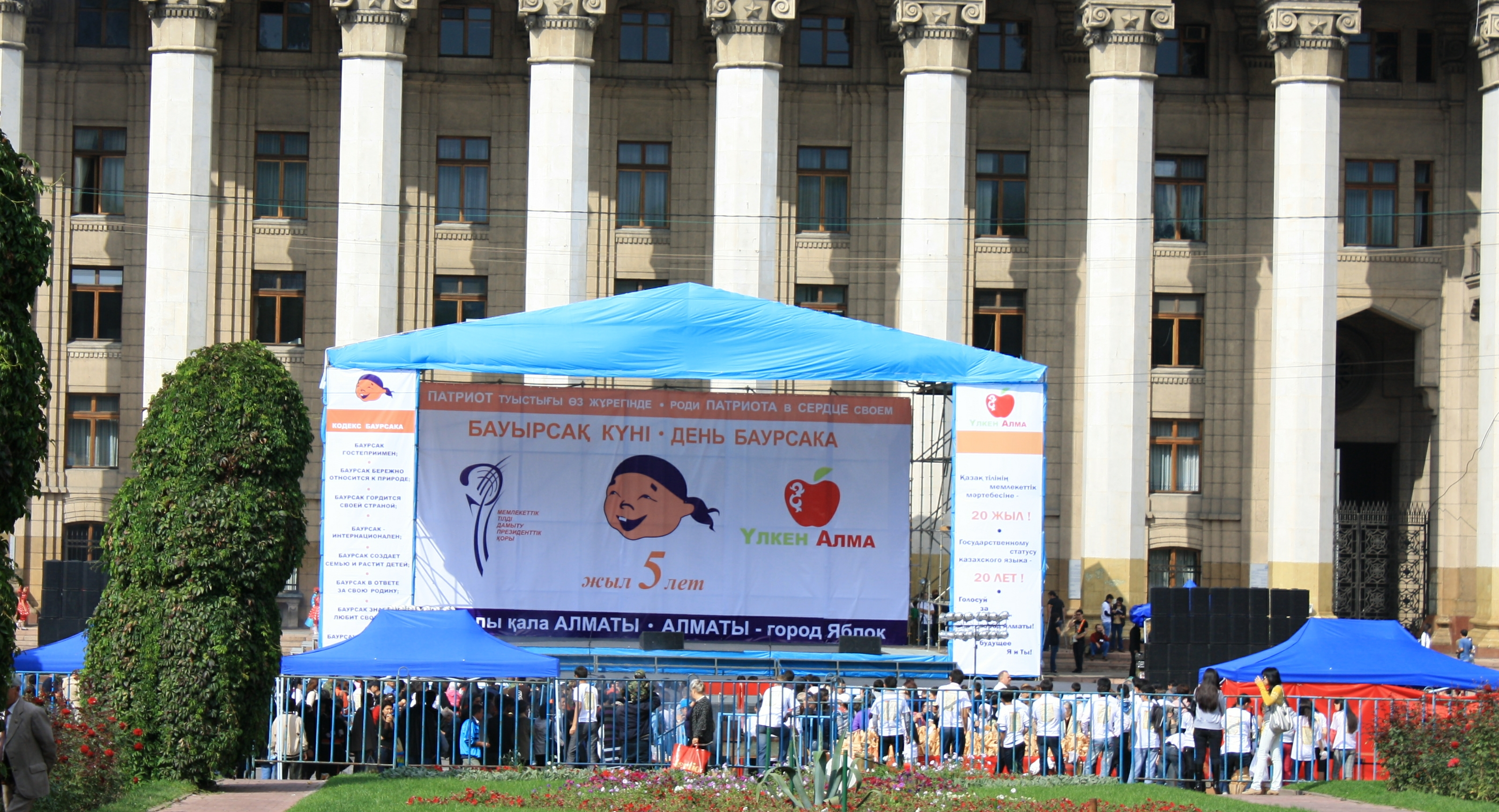 The Boortsog Day in Almaty, Kazakhstan